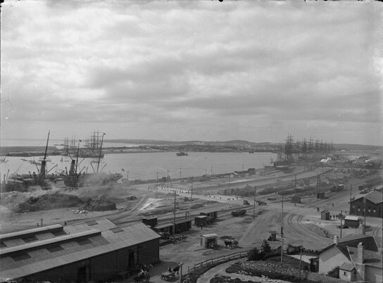 Victoria Quay, Fremantle Harbour and the Swan River from the Signal Station, Fremantle, Western Australia.(*The source says ca. 1905, but the original Fremantle railway station, which would have been right in the centre of this photo if taken in 1905 (see this image, created in ca. 1904), had been closed (in 1907) and demolished before this photo was taken.)